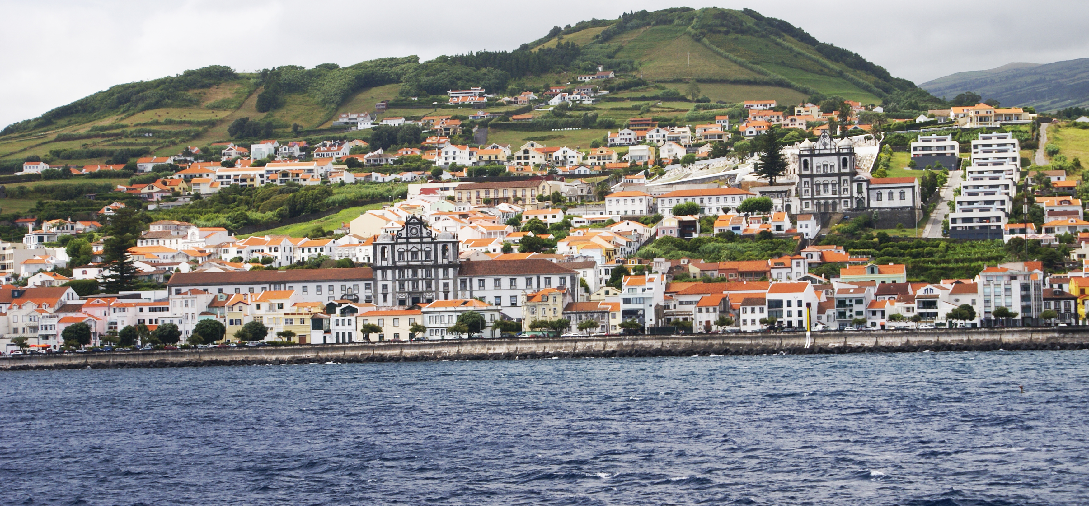 cidade da Horta vista da Baía da Horta, ilha do Faial, Açores, Portugal